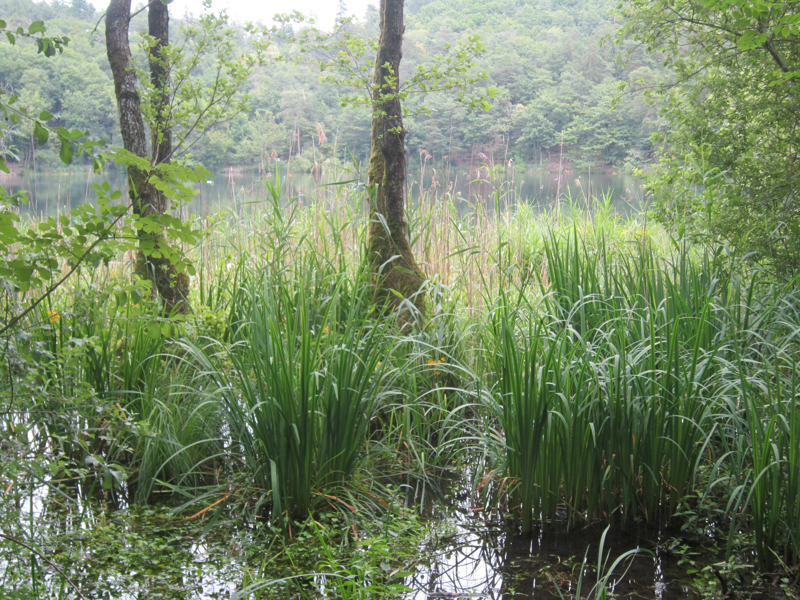 Little Lake Montiggle (Eppan/Appiano) in South Tyrol